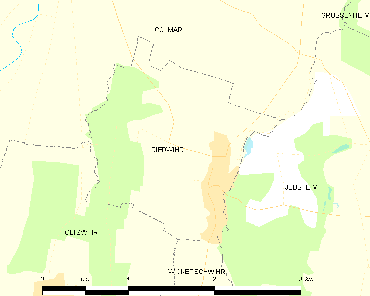 Map of French municipality